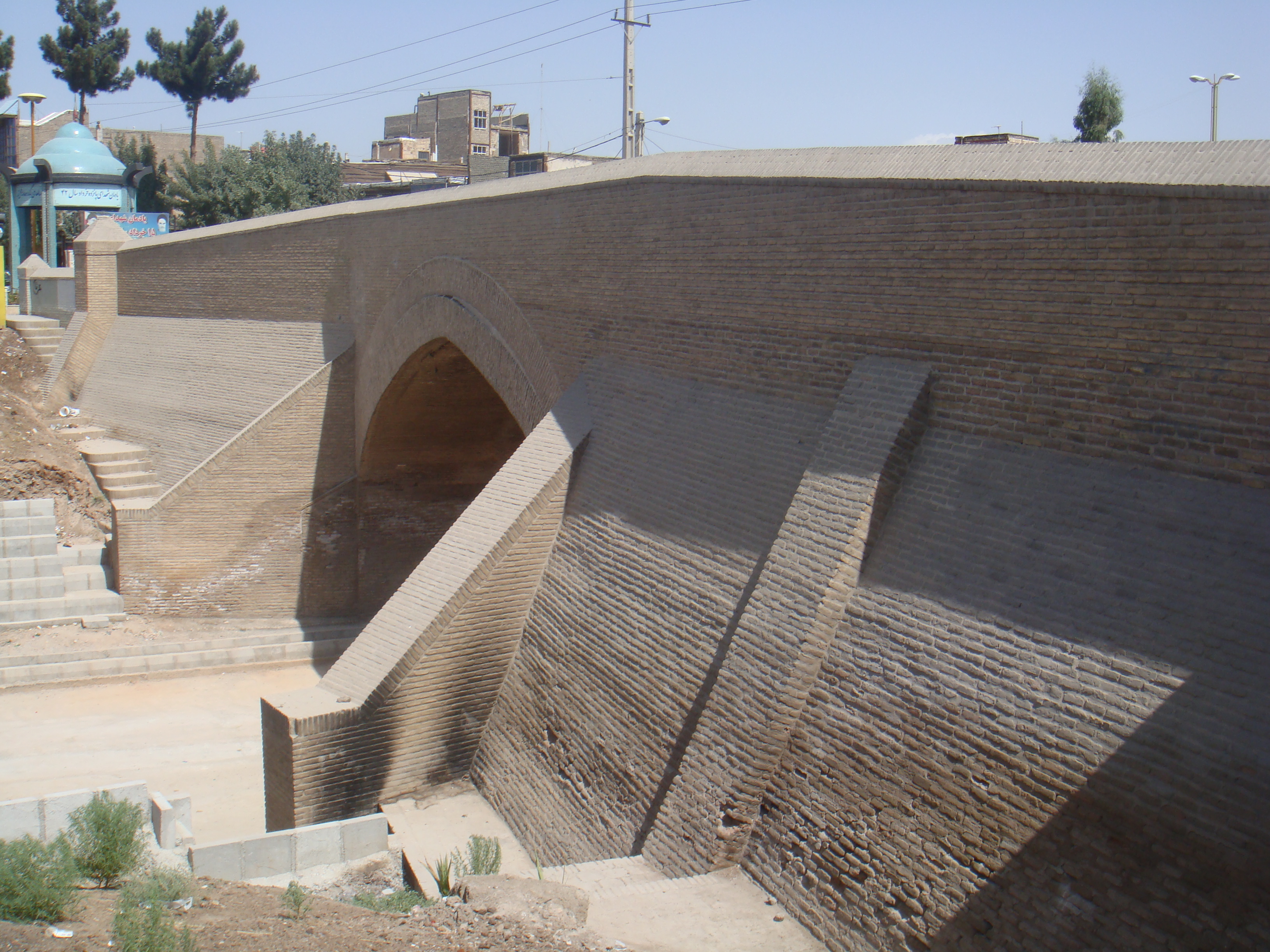 Baqerabad Bridge near Varamin in Tehran province, Iran